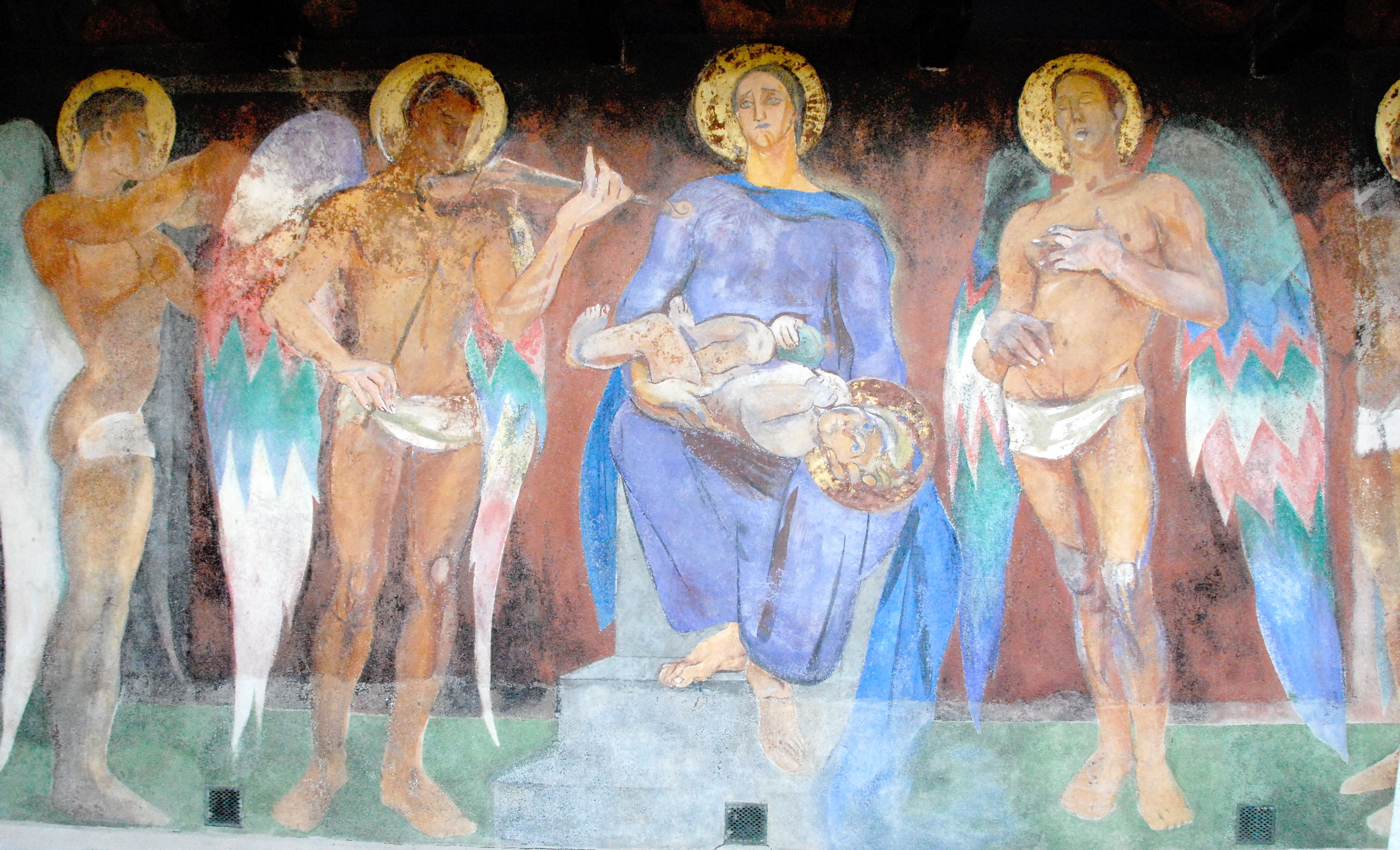 Cutout from the fresco "Madonna with child, surrounded by music playing angels“, a monumental work by Anton Kolig, painted 1927-29 on the southern wall of the Roman Catholic parish church Saint Kanzian at Saak, market town Noetsch, district Villach Land, Carinthia, Austria, European Union